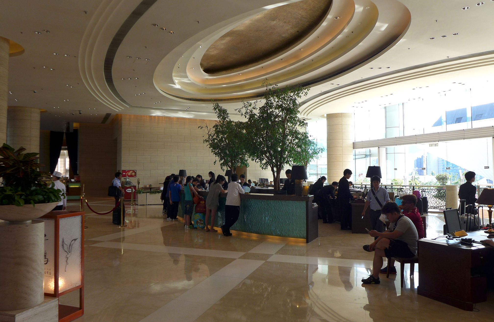 Harbour Plaza Metropolis Hotel Lobby